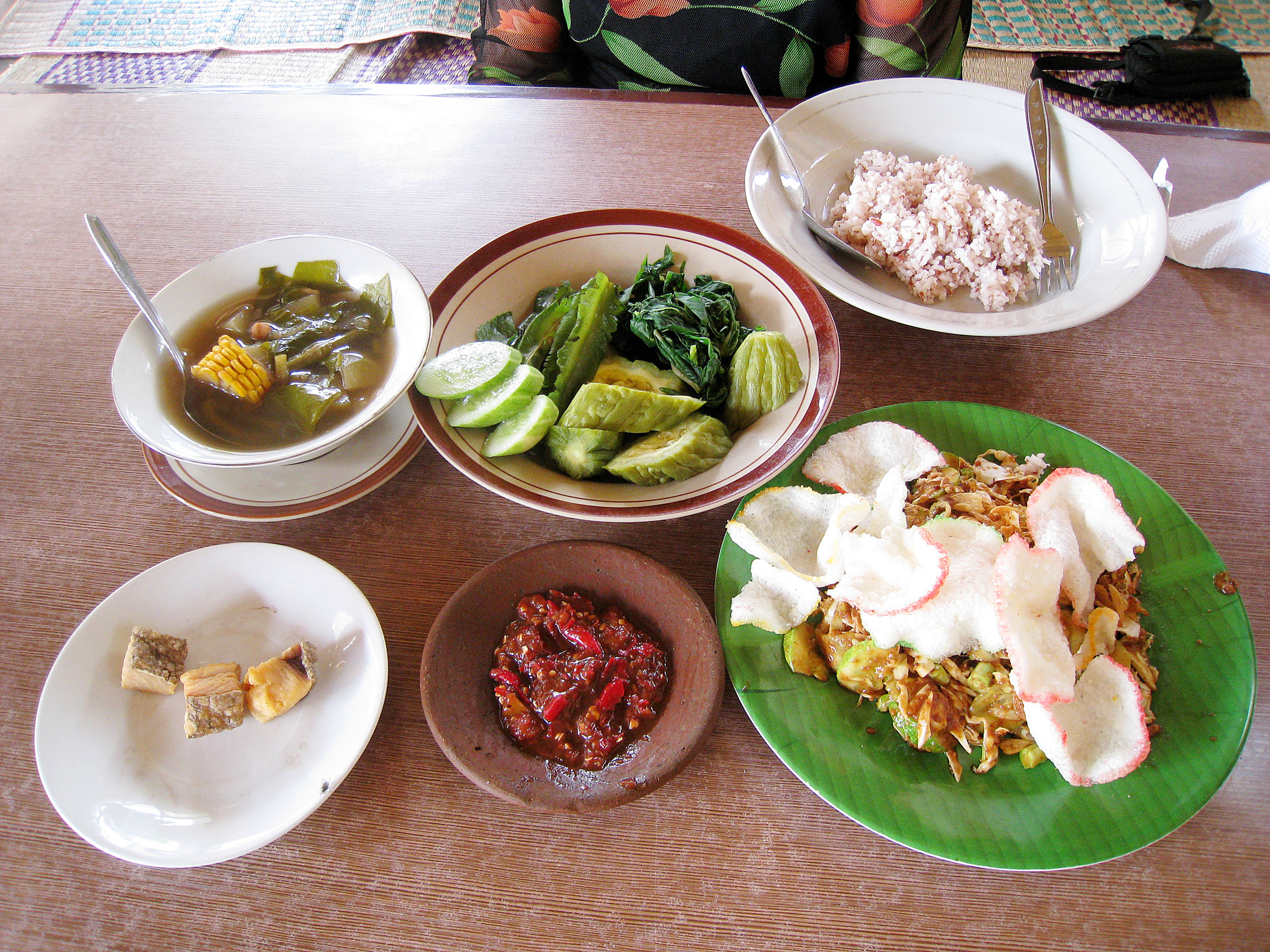 Typical traditional Sundanese cuisine at Laksana restaurant, Sangkanhurip, Kuningan, West Java. Sayur Asem (tamarind vegetable soup), Lalab (raw vegetables), red rice, Jambal Roti salted fish, Sambal, and Karedok (raw vegetables in peanut sauce), and tea. Dine in Lesehan-style (sit on the mat).